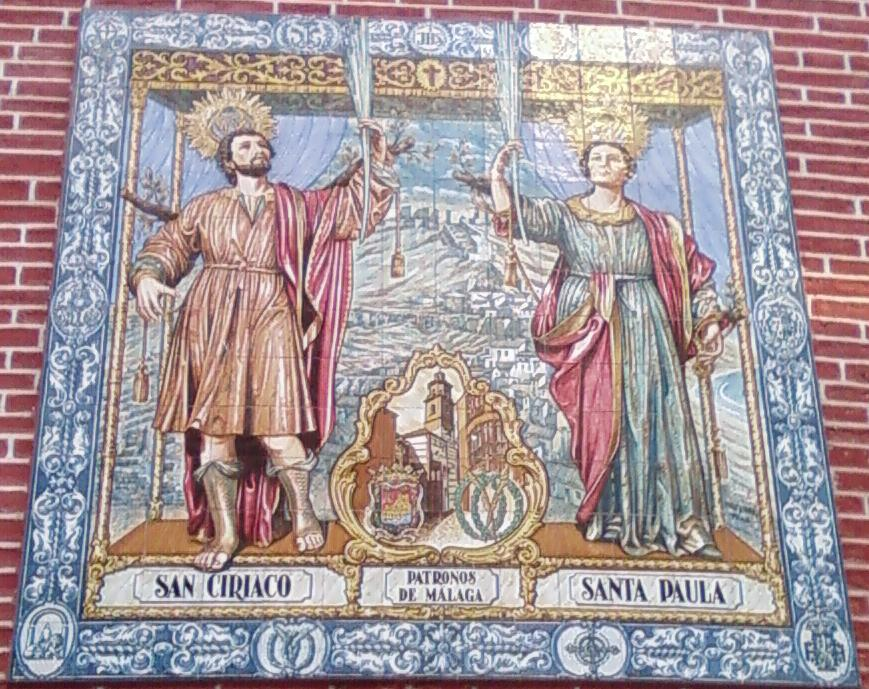 Ciriaco and Paula, holy martyrs from the city of Málaga, Spain